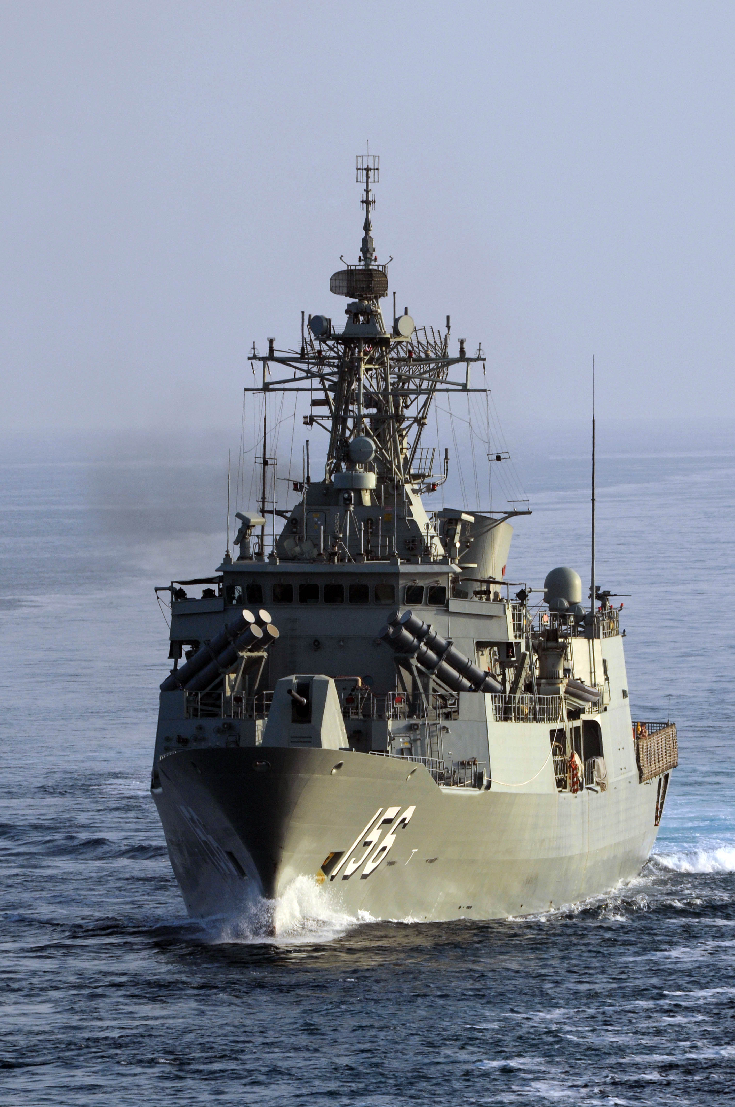 091104-N-3038W-255 GULF OF OMAN (Nov. 4, 2009) The Australian navy frigate HMAS Toowoomba (FFH-156) is underway near the aircraft carrier USS Nimitz (CVN 68) during coalition maritime operations.